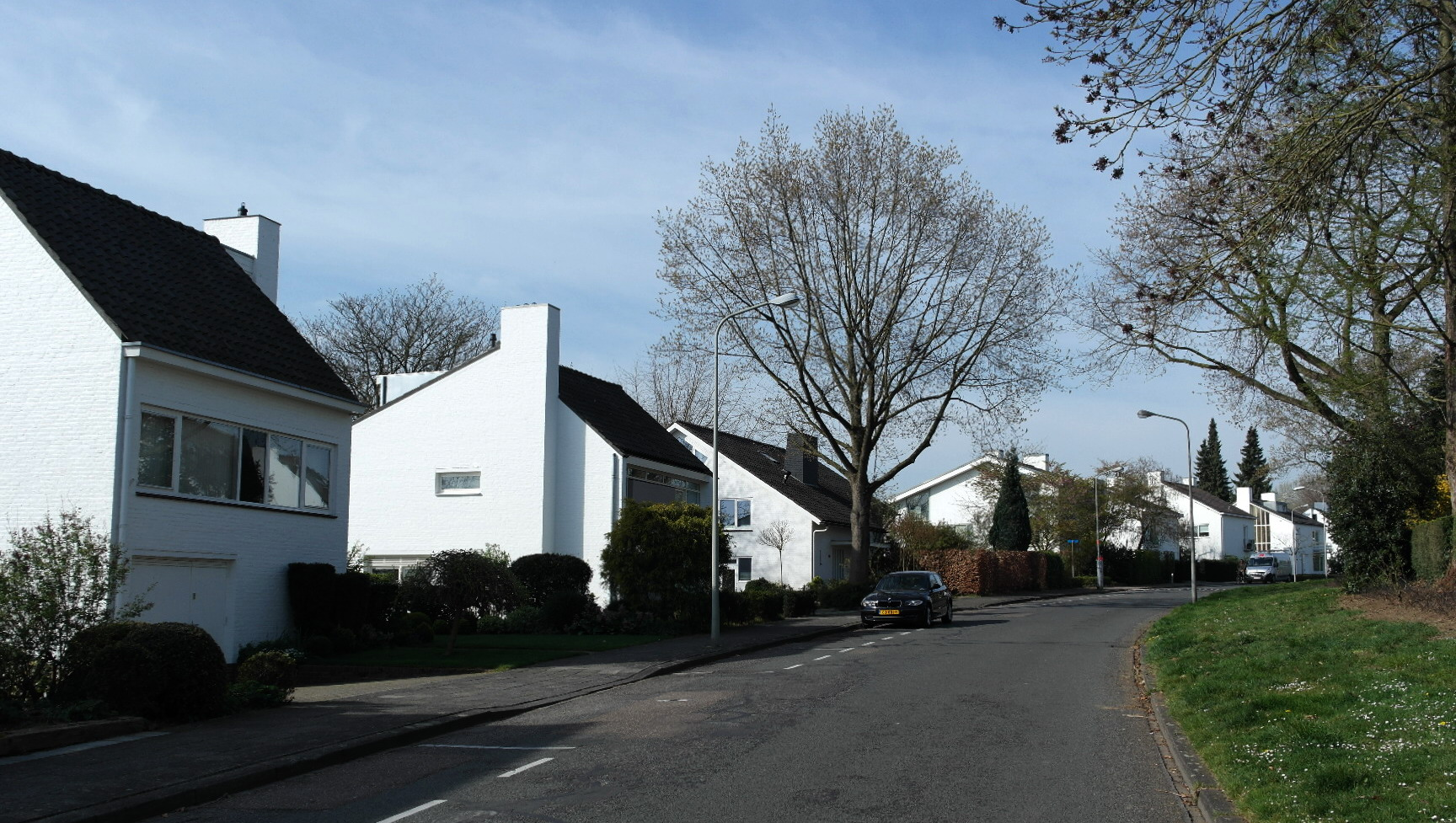 Maastricht, the Netherlands. View of residential street in Biesland.